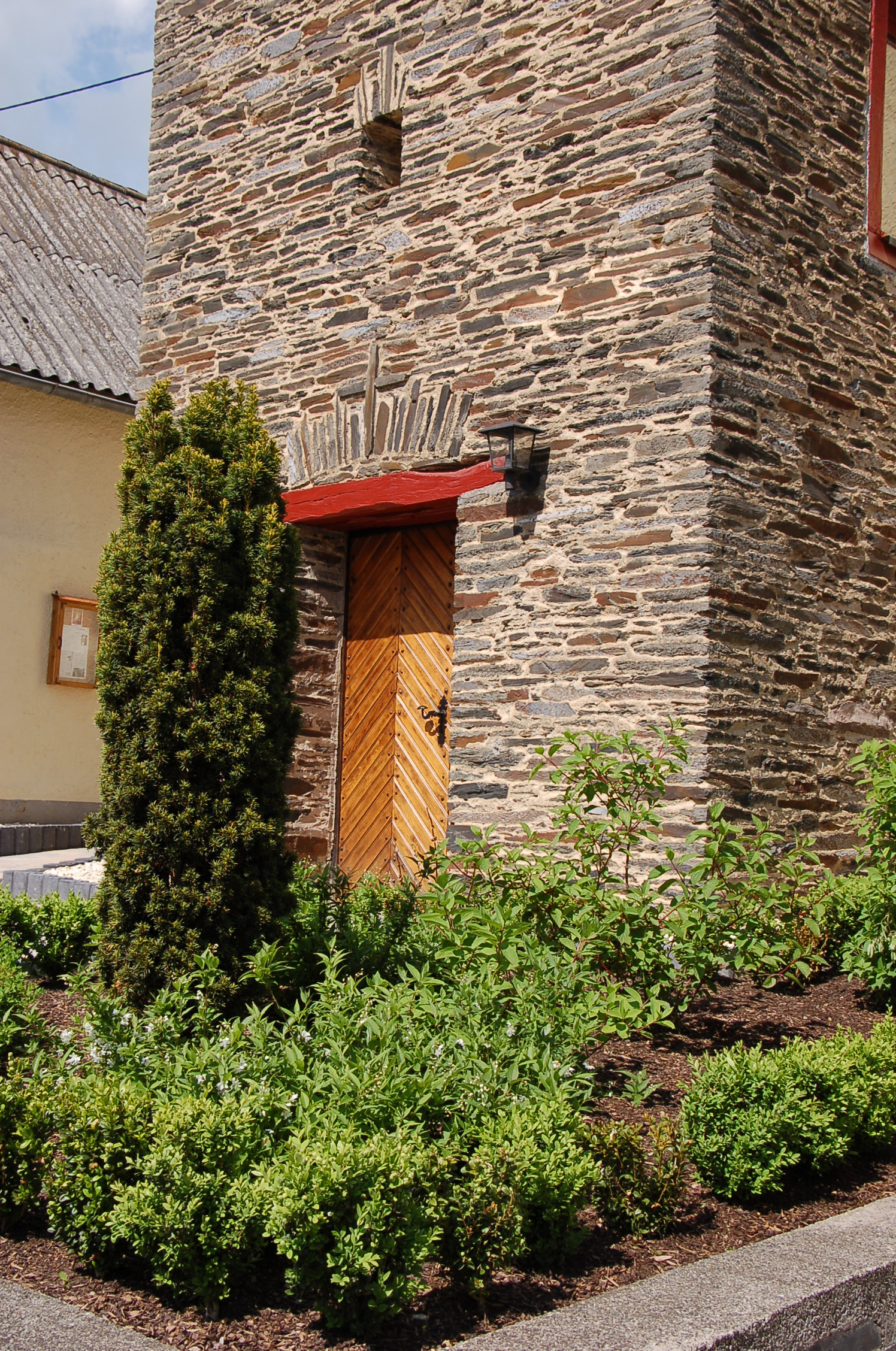 protestant church Lindenschied